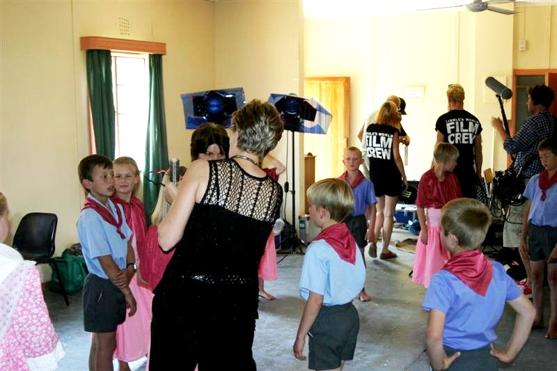 Production of "Liddle's World", a documentary series with Rod Liddle. The pilot featured the town of Orania, South Africa.